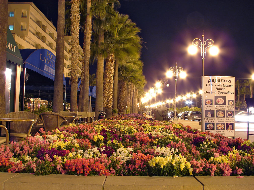 Seaside Avenue "Foinikoudes", Larnaca.